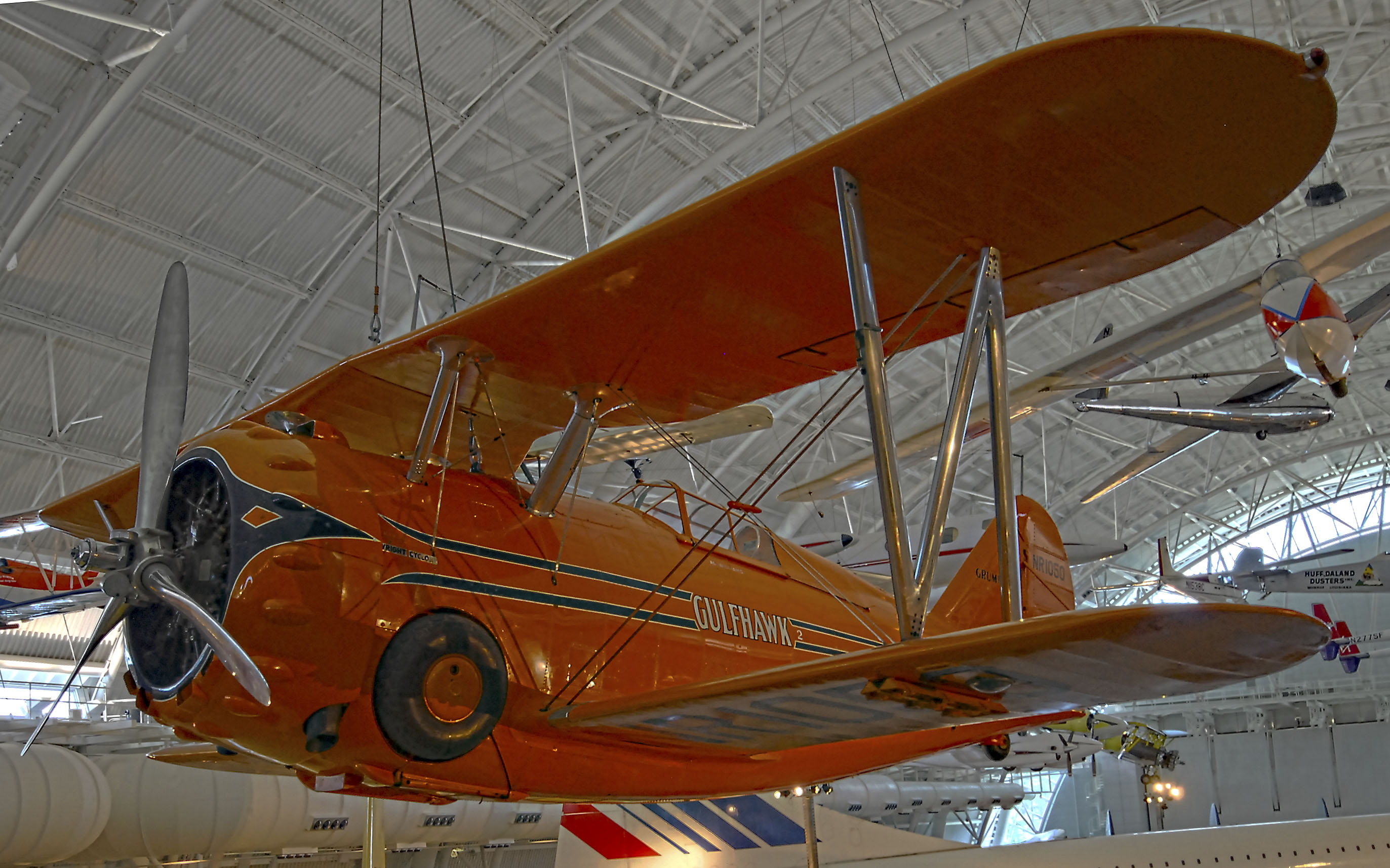 G-22 Gulfhawk II at the Steven F. Udvar-Hazy Center of the National Air and Space Museum.